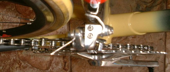 Shimano 105 FD5500 front Derailleur (top view)